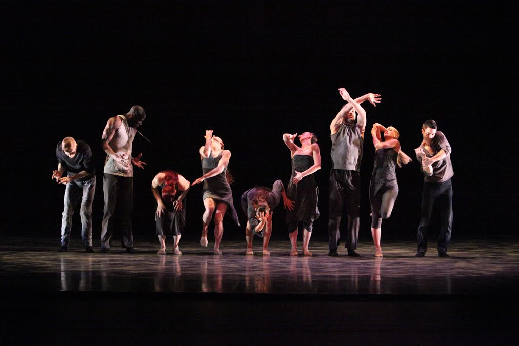 Members of American jazz dance company Giordano Dance Chicago in performance. Required attribution: "Giordano Dance Chicago in the only way around is through, choreographed by Joshua Blake Carter with concept and structure by Nan Giordano."